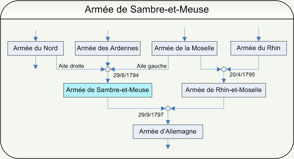 Graphic of the Formation of the Army of Sambre and Meuse Dessin réalisé par Papier K